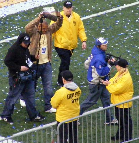 Antonio Pierce at the Giants Rally after victory in Super Bowl XLII.